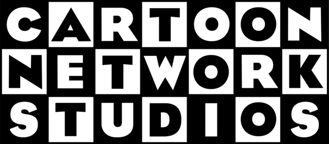 The second variant of the first Cartoon Network Studios' logo.